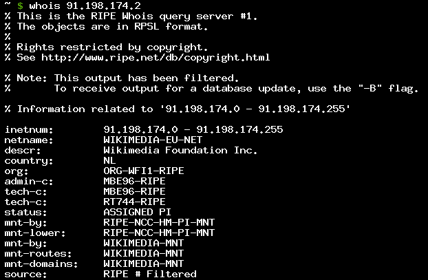 whois command aimed to wikinews server